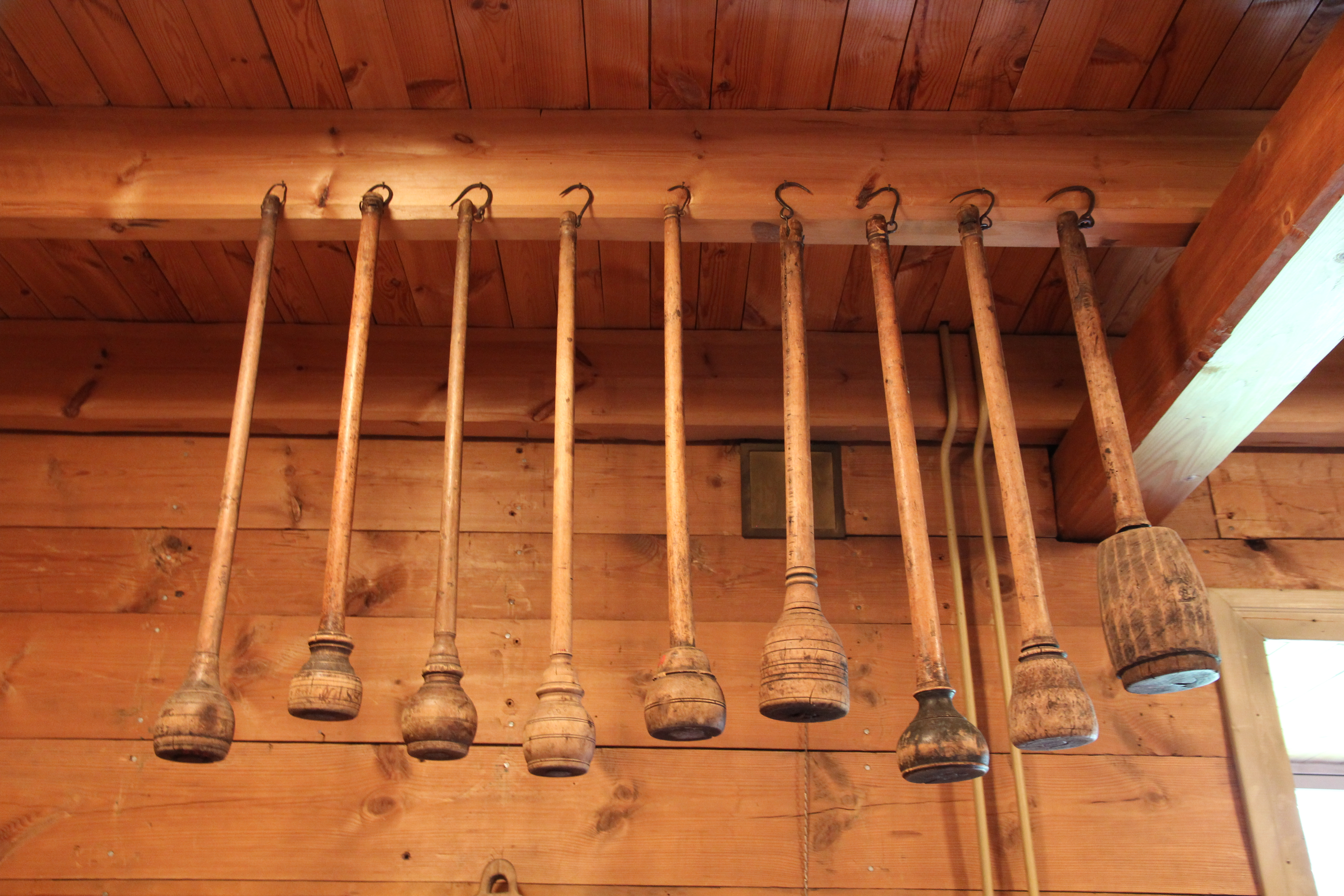 Pestles in Suur-Savo museum.